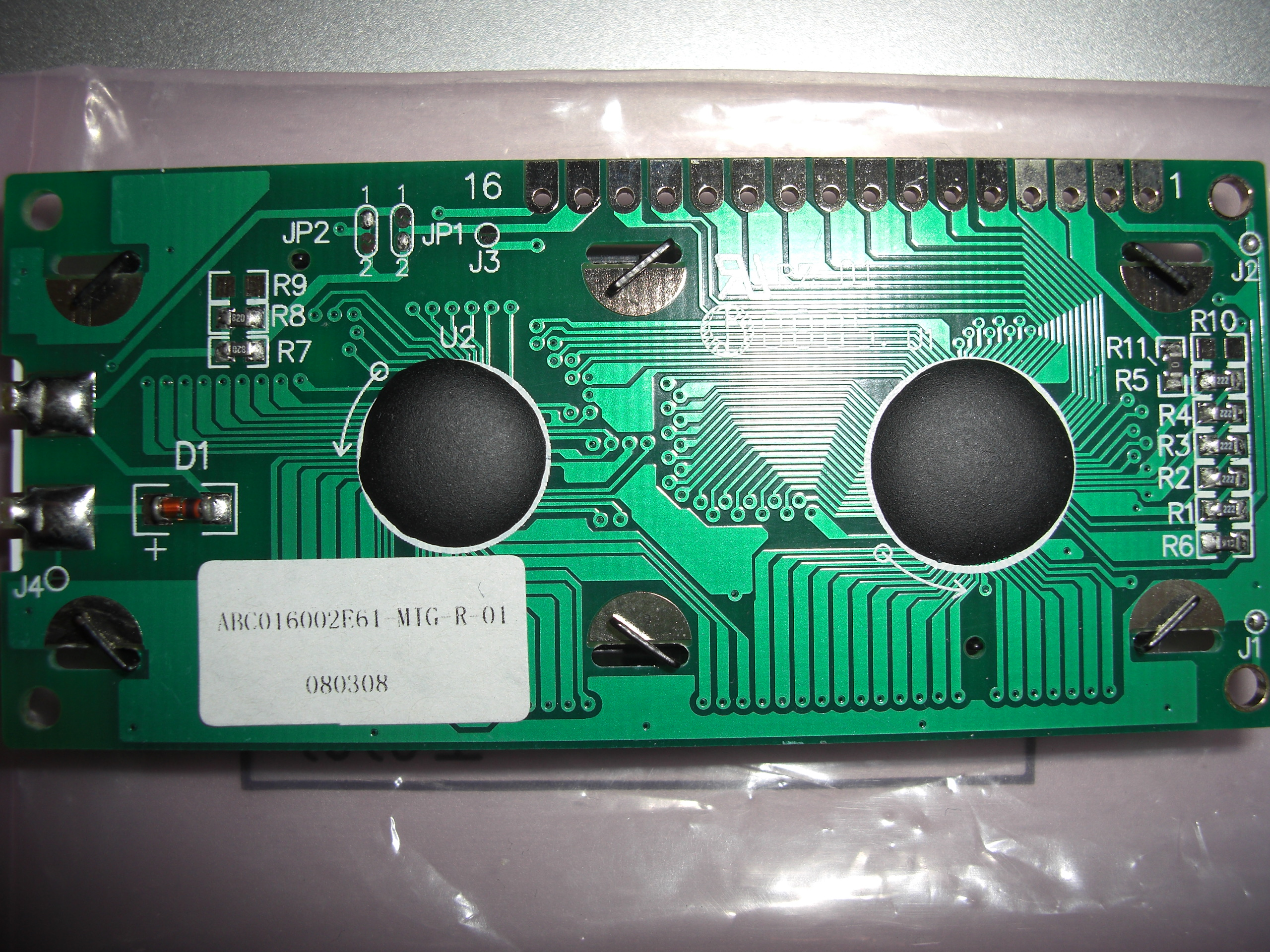 COB technology example